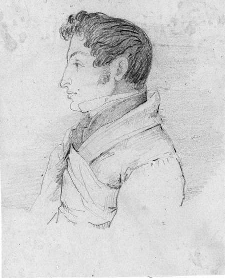 Johan Jakob Nervander, Finnish physicist and writer